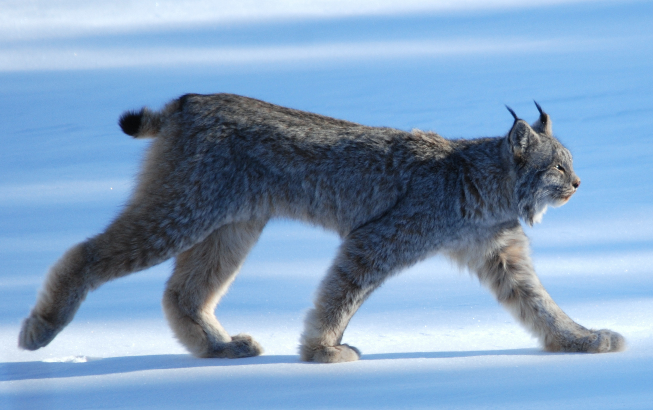 The sun was low and this lynx moved through the shadows as he approached the shore of a frozen Annie Lake in southern Yukon. They are nocturnal animals and rarely seen.